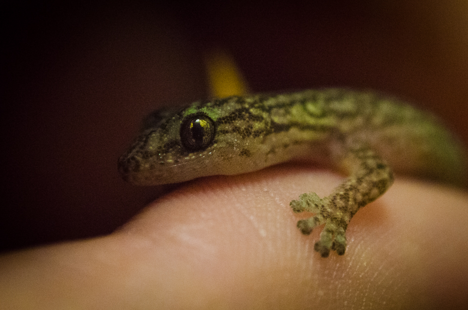 A close up of a Marbled Gecko's head and closed snout. Note the pads on its feet.